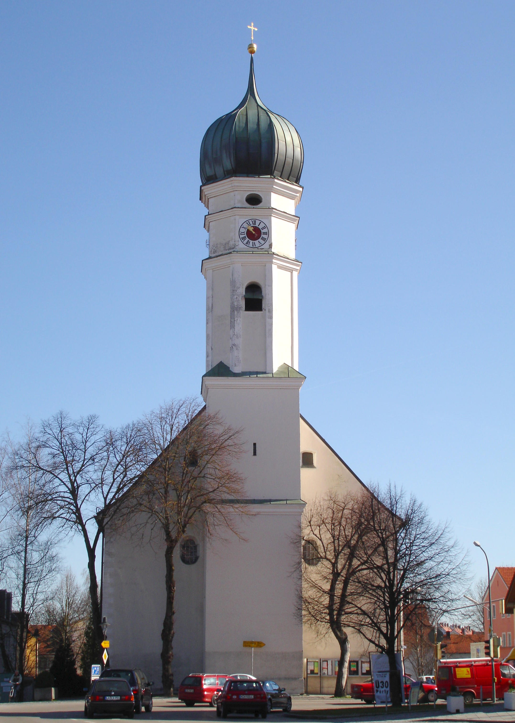 Markt Schwaben, western facade and bell tower of St Margret's Parish Church.